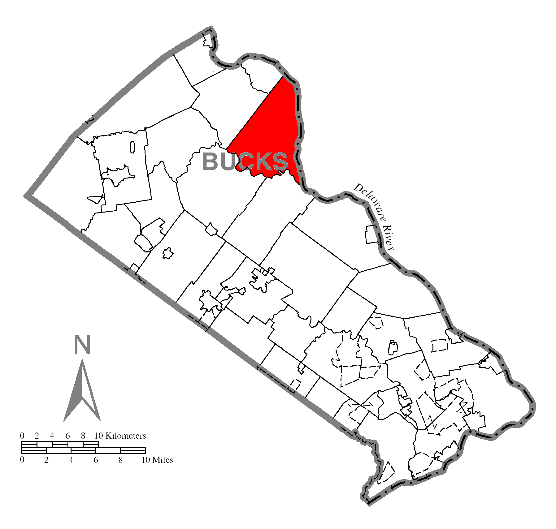 A map of Bucks County showing Tinicum Township, Pennsylvania (alternate) highlighted on the map.